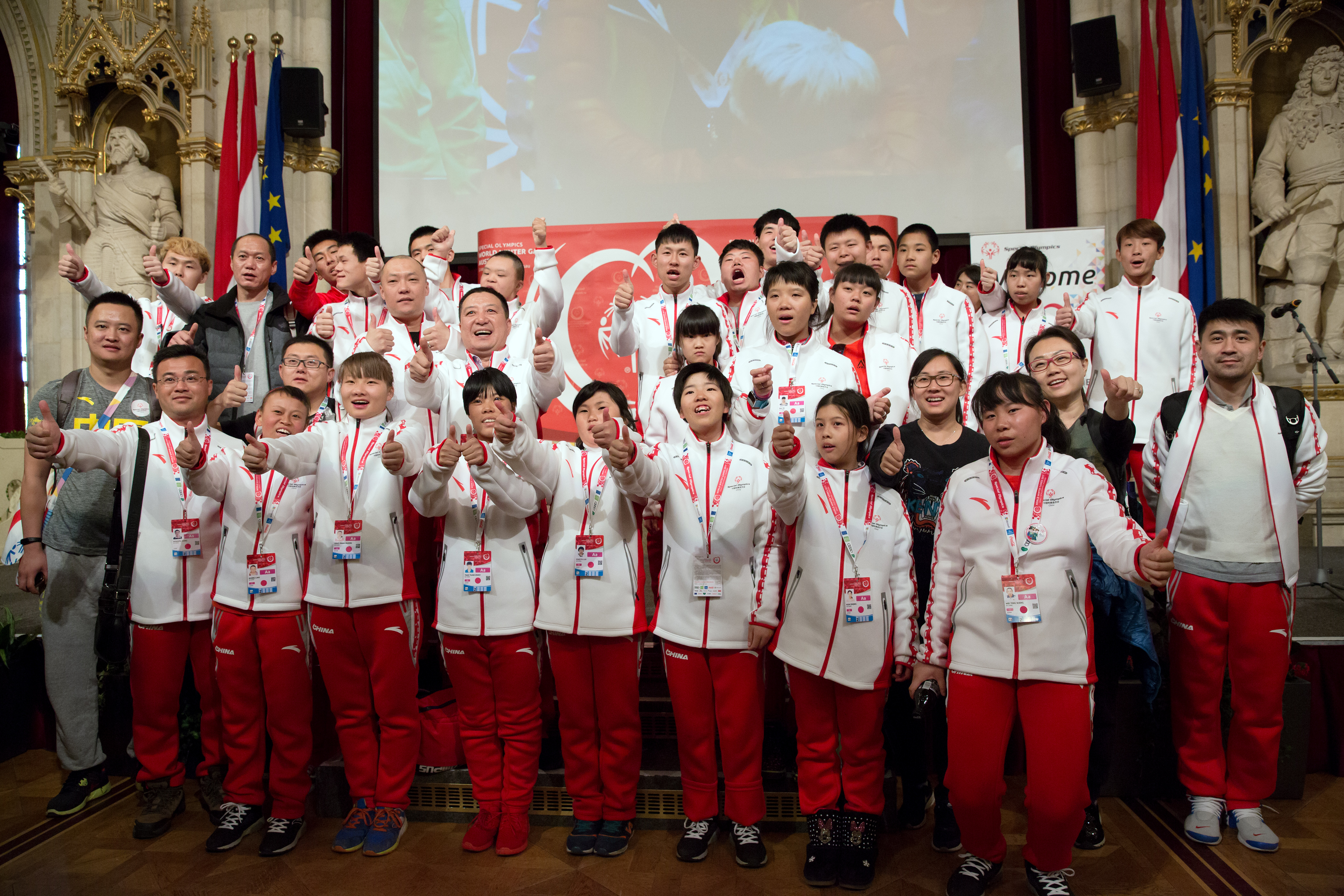 Team members from China for the 2017 Special Olympics World Winter Games at the reception at Rathaus, Vienna.